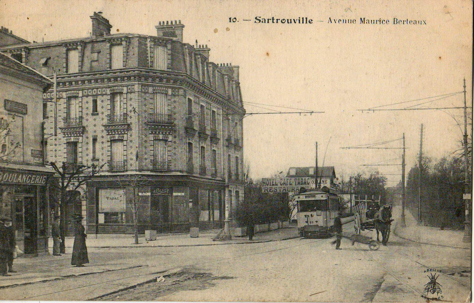 Carte postale ancienne éditée par Abeille à Paris, n°10 : SARTROUVILLE - Avenue Maurice-Berteaux